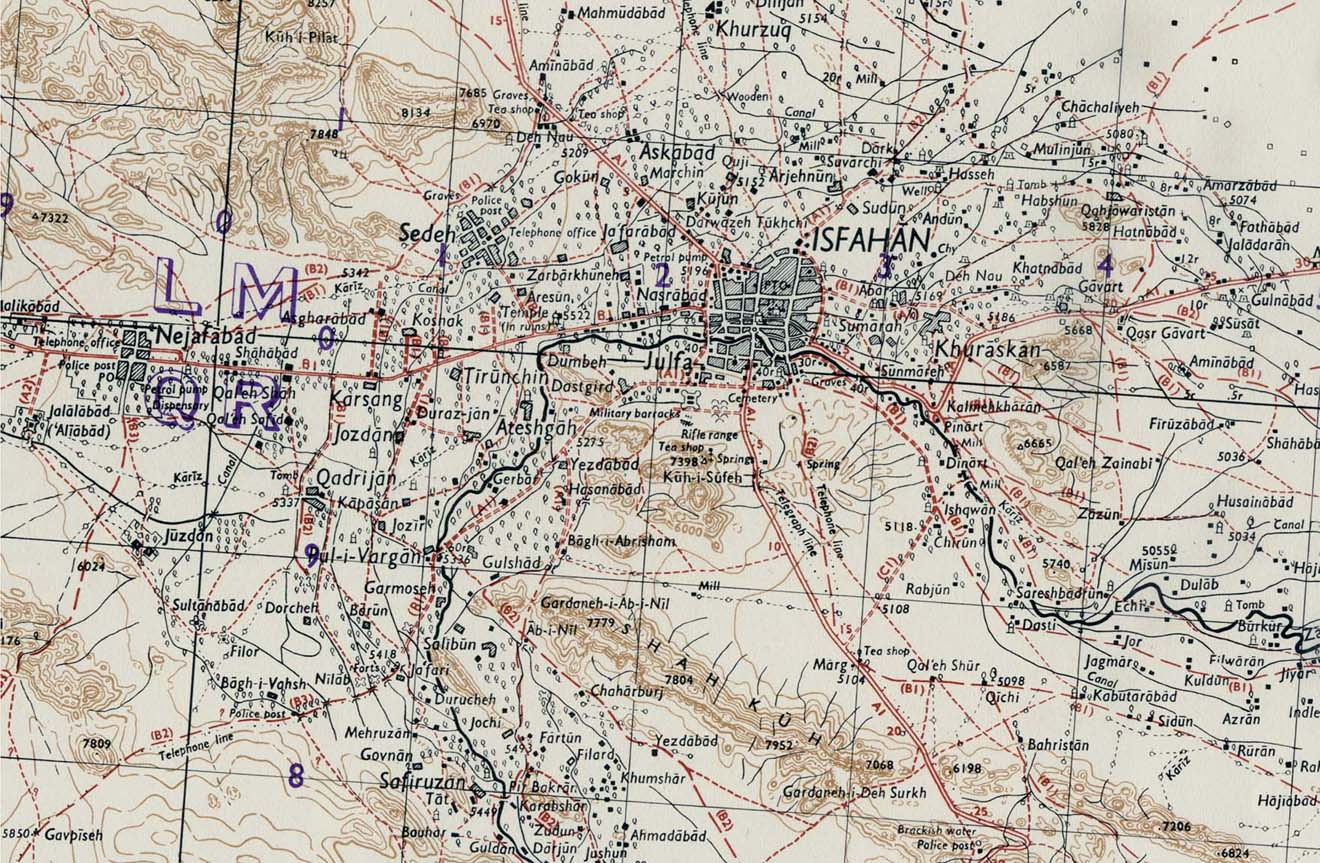 Map of Isfahan